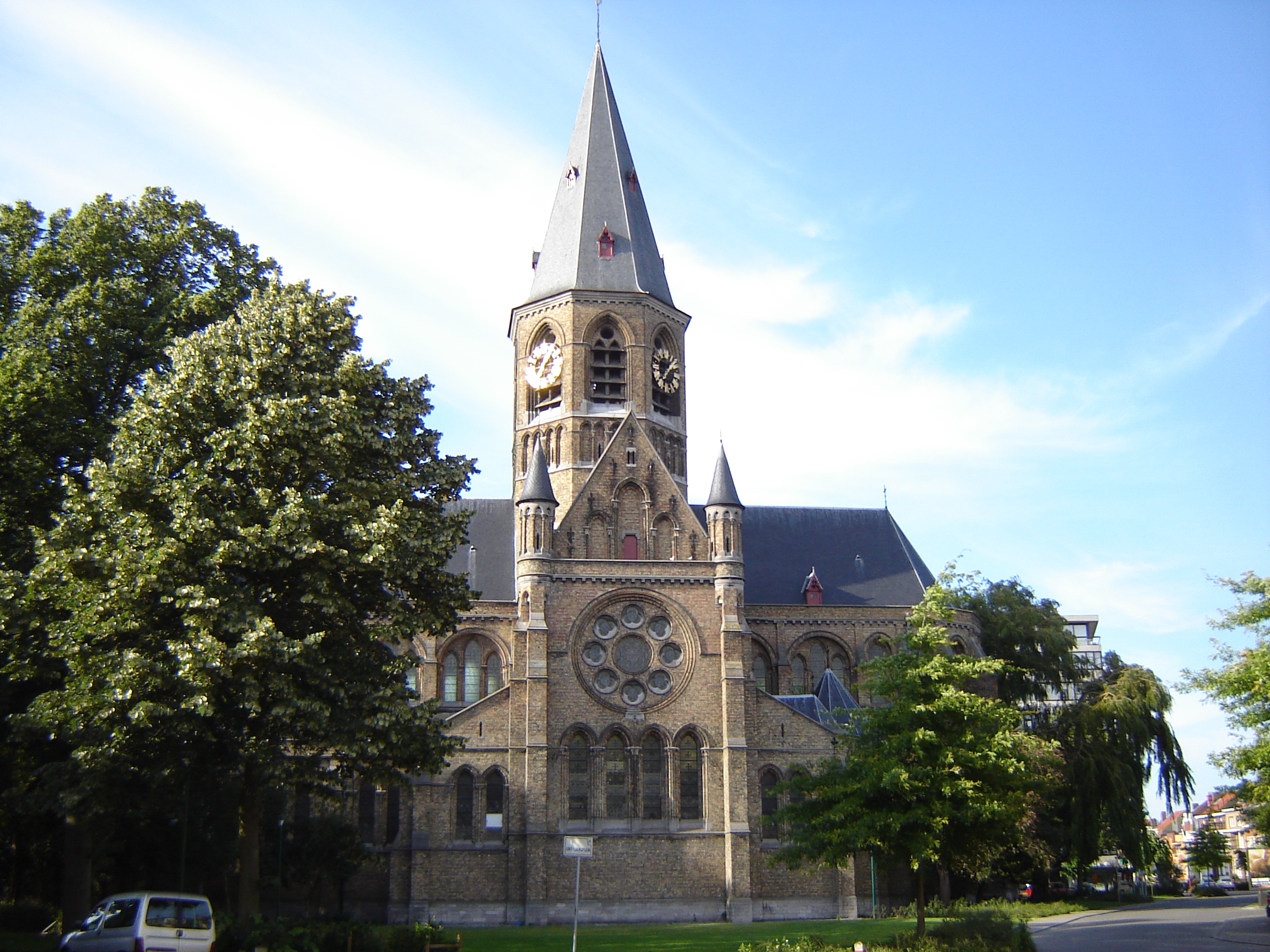 Church of Saint John Baptist in Kortrijk, West Flanders, Belgium.